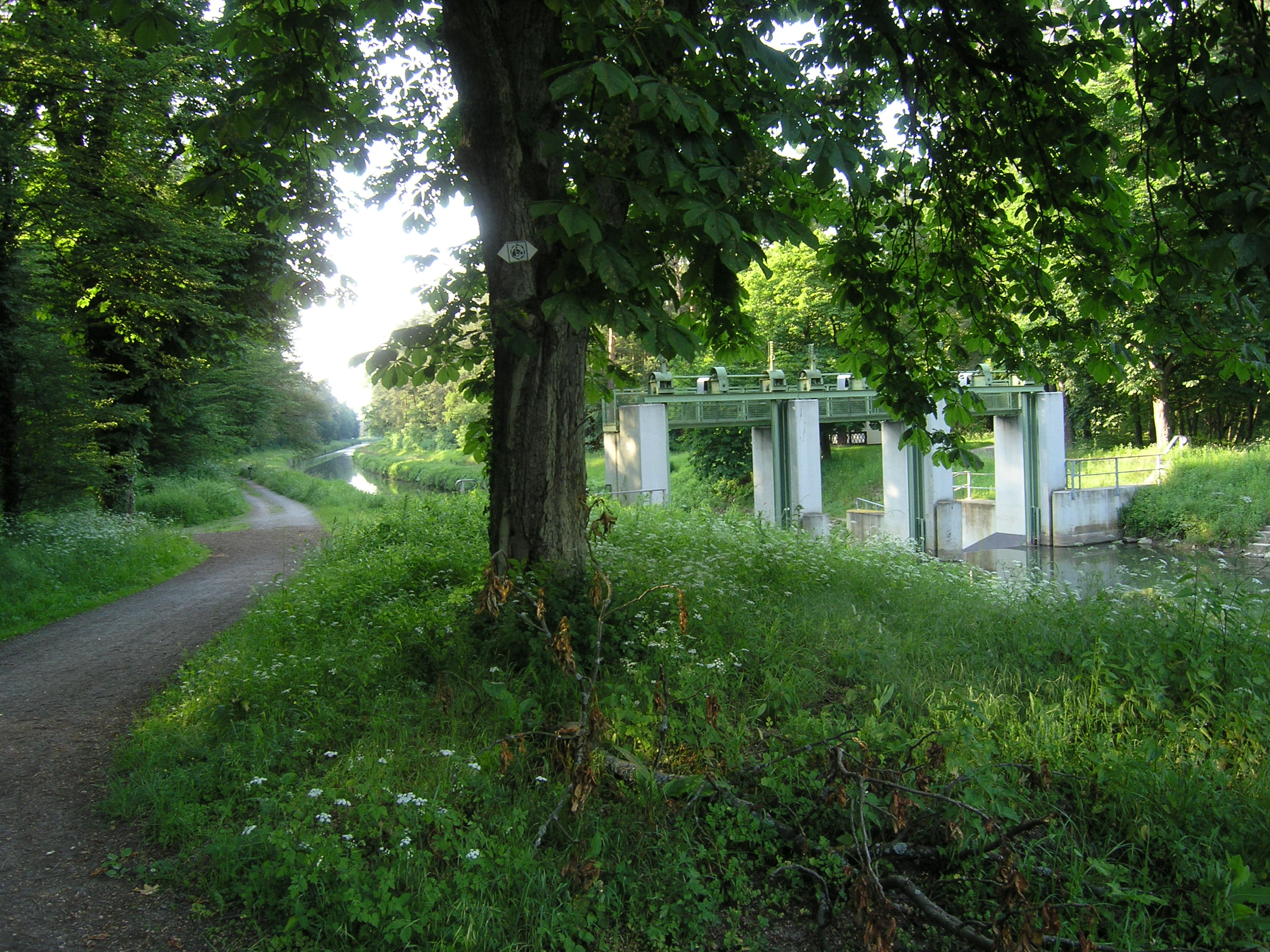 Side channel of river Pfinz in Hardtwald forest near Karlsruhe